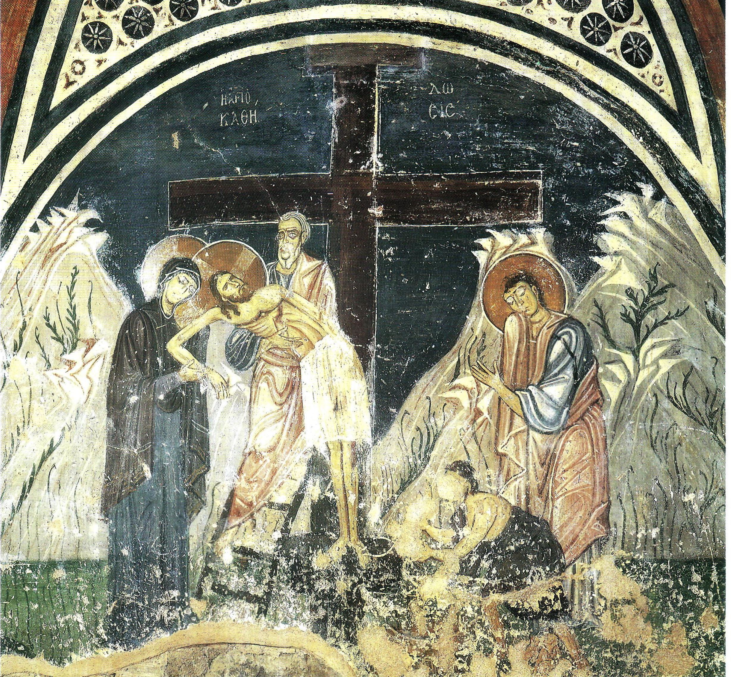 Hosios Loukas Monastery, Boeotia, Greece